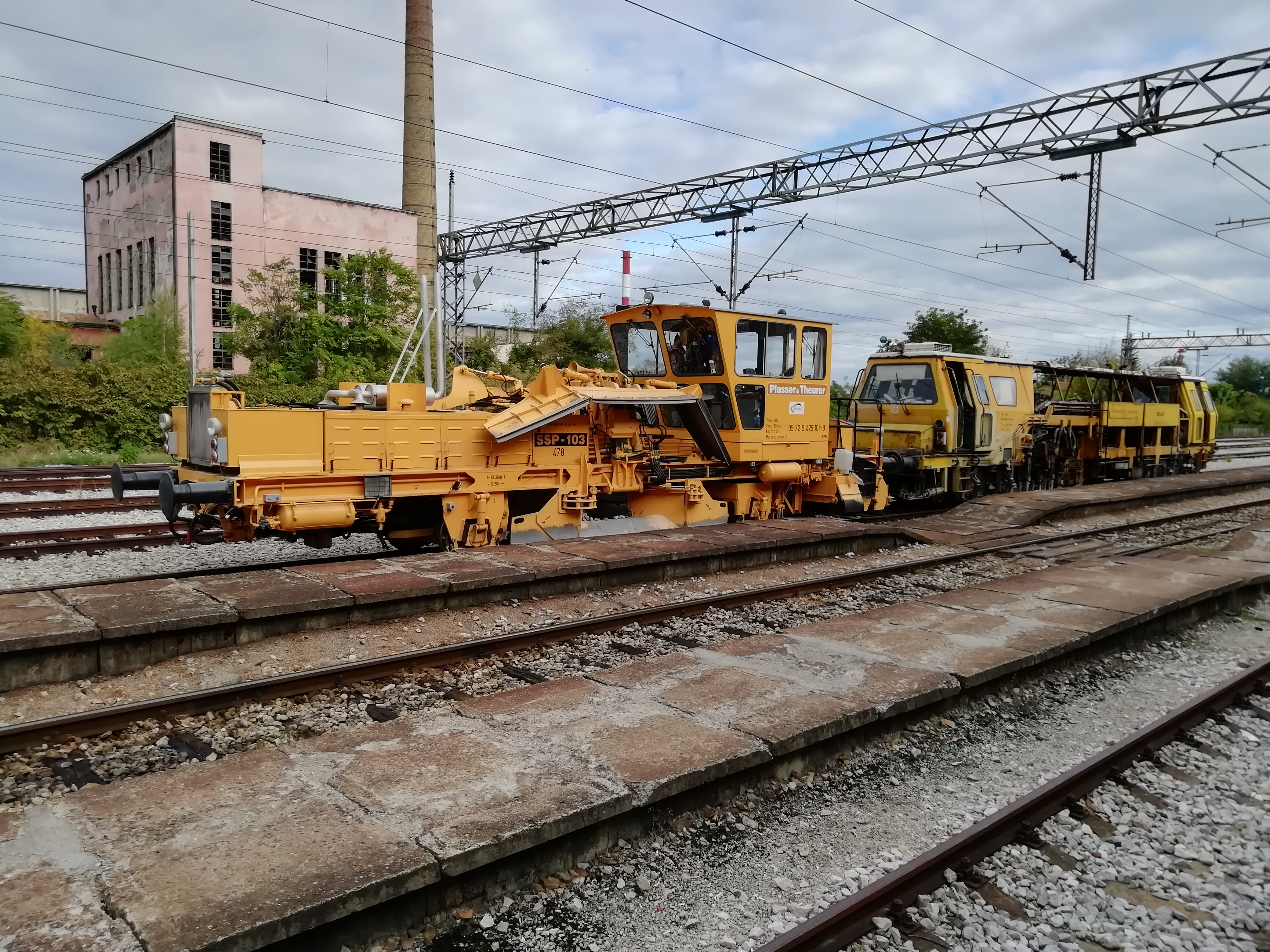 Serbian Railways Infrastructure rail track maintenance machine in Čačak, October 2019; it is manufactured by Plasser & Theurer